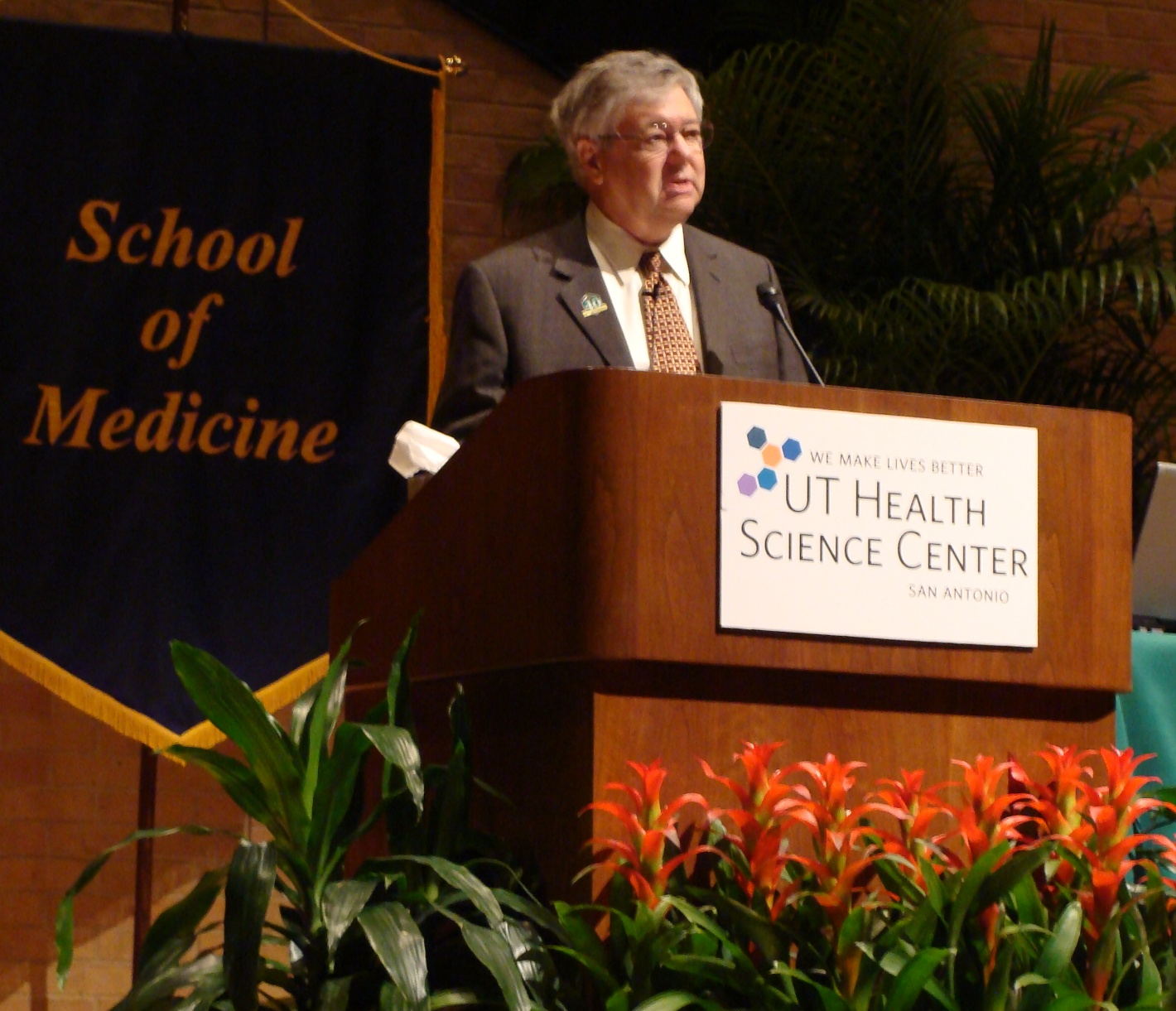 Michael S. Brown at the University of Texas Health Science Center at San Antonio, for the Medical School's 40 anniversary lecture.